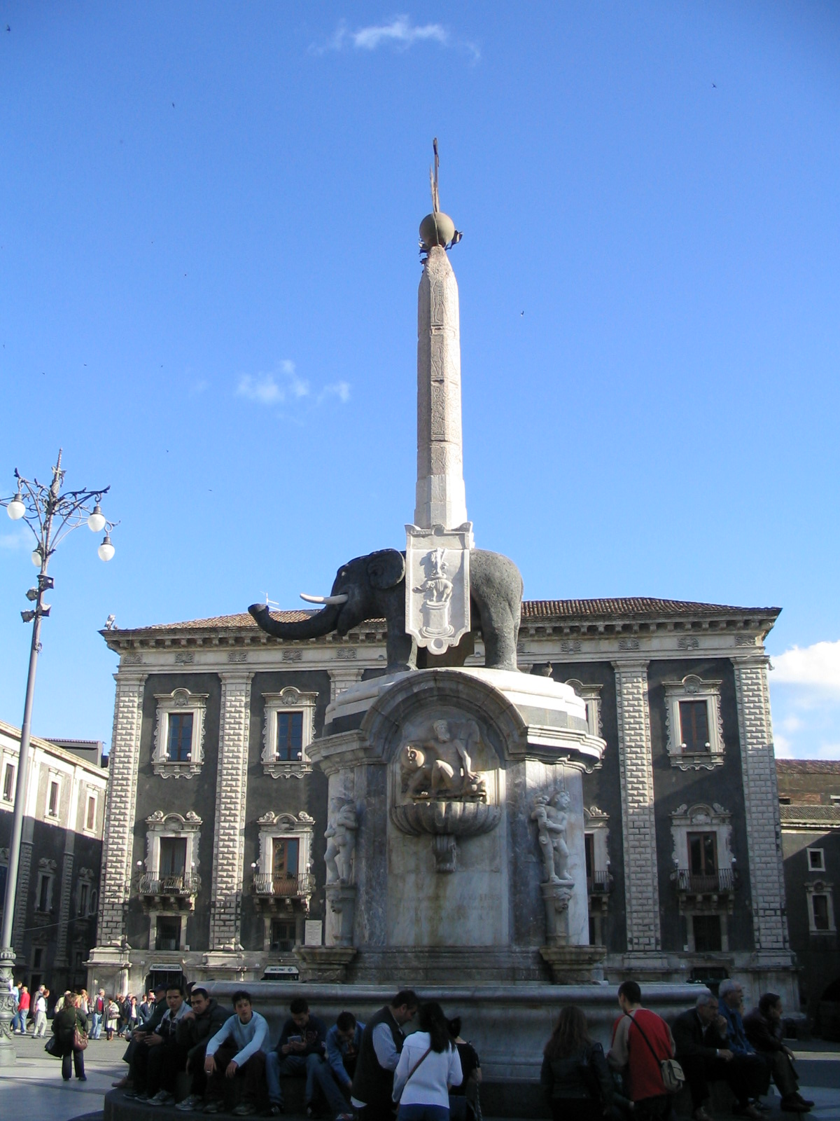 Elephant Fountain in Catania (north).